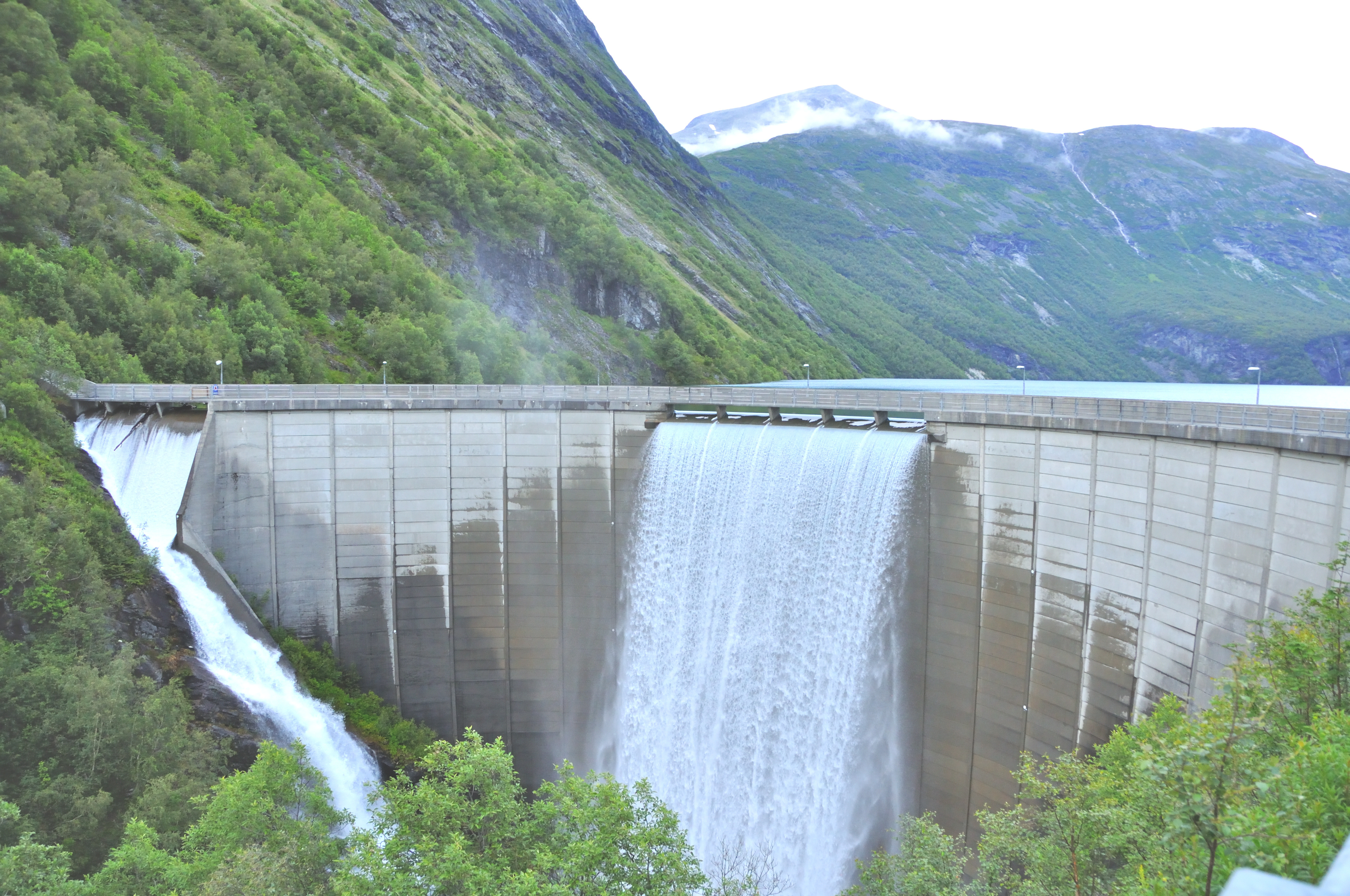 The Zakarias dam, lake and reservoir seen towards Reindalen, july 2019.